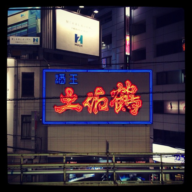 Tosazuru's neon sign